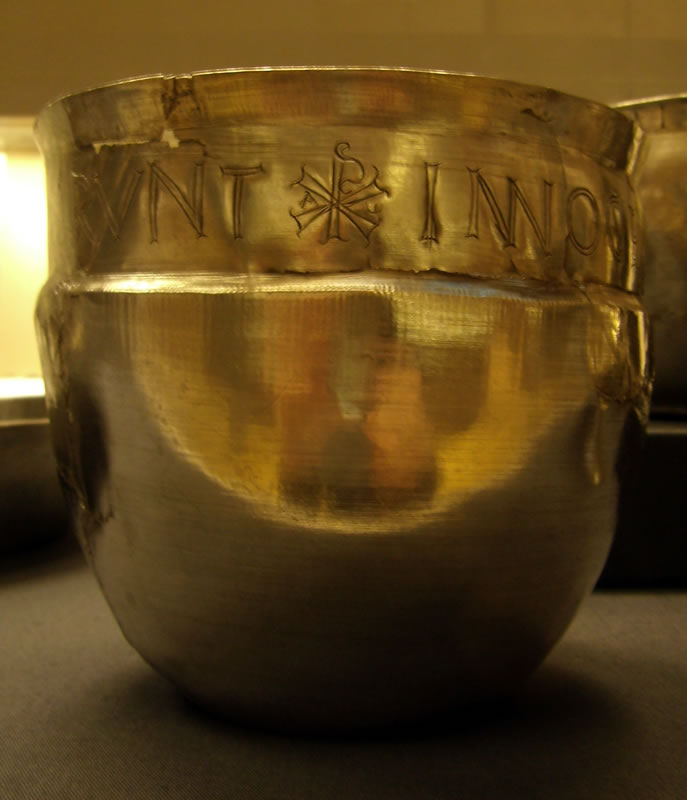 Water Newton Treasure, silver cup with Latin inscription